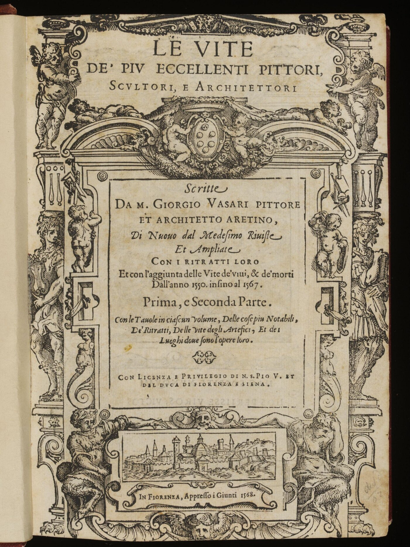 Immagine:Vite-Vasari.jpg